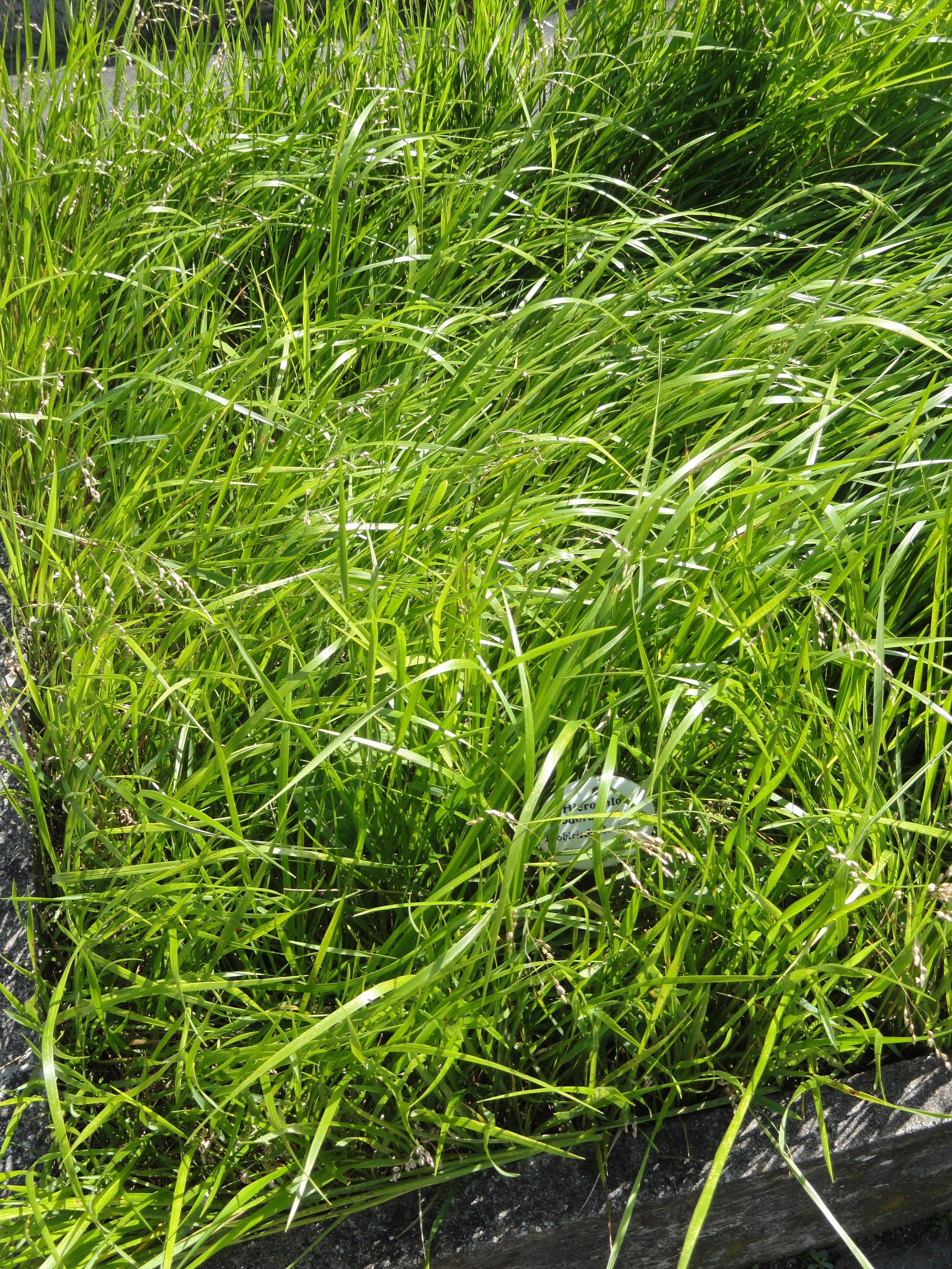 Botanical specimen in the Botanischer Garten, Frankfurt am Main, located at Siesmayerstraße 72, Frankfurt am Main, Germany.